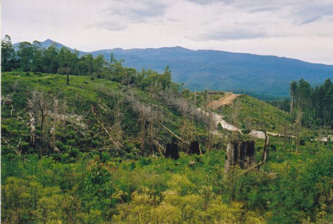 Tasmania, Styx Valley, landscape after clear-felling, showing old-growth to the right and in the distance, pine plantations